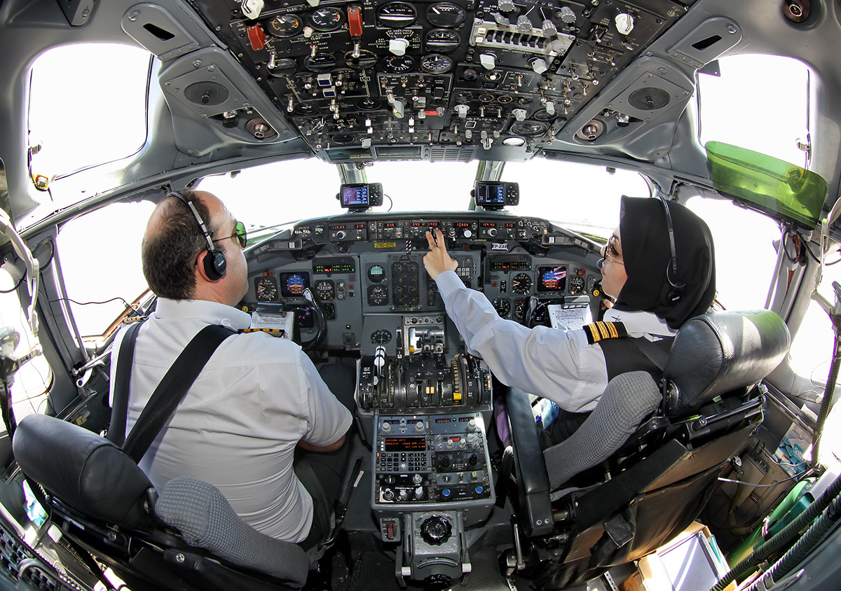 Zagros Airlines McDonnell Douglas MD-82. It was very rare in the past but It's getting normal to see a female pilot in Iranian cockpits these days. Thanks to dear Capt. Roozbayani and F/O Ms. Neshat Jahandari for photo permission in-flight THR-MHD. I wanna wish her safe and happy landings and more successes in her aviation life.